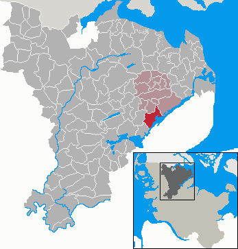 This map shows the area of the Gemeinde (municipality) Ulsnis in the Kreis (district) Schleswig-Flensburg, Schleswig-Holstein, Germany.